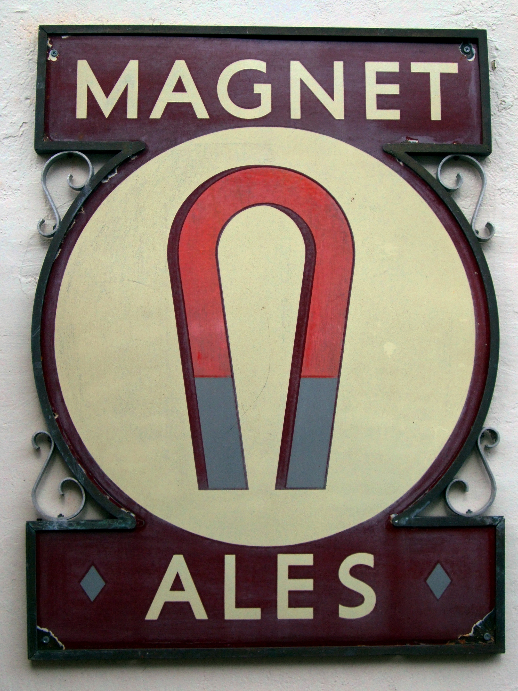 A sign for these ales outside Hooper's, Ivanhoe Road.